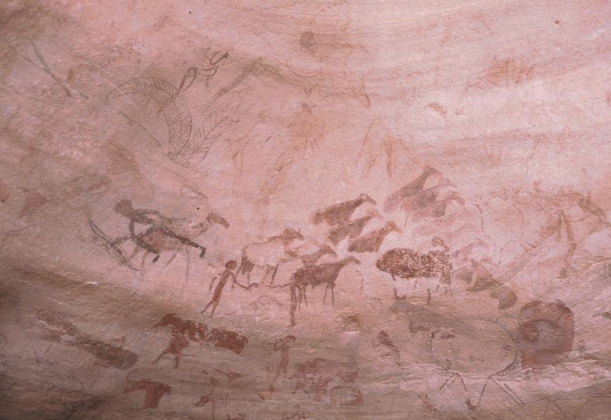 Herd of rams and anthropomorphic figures.